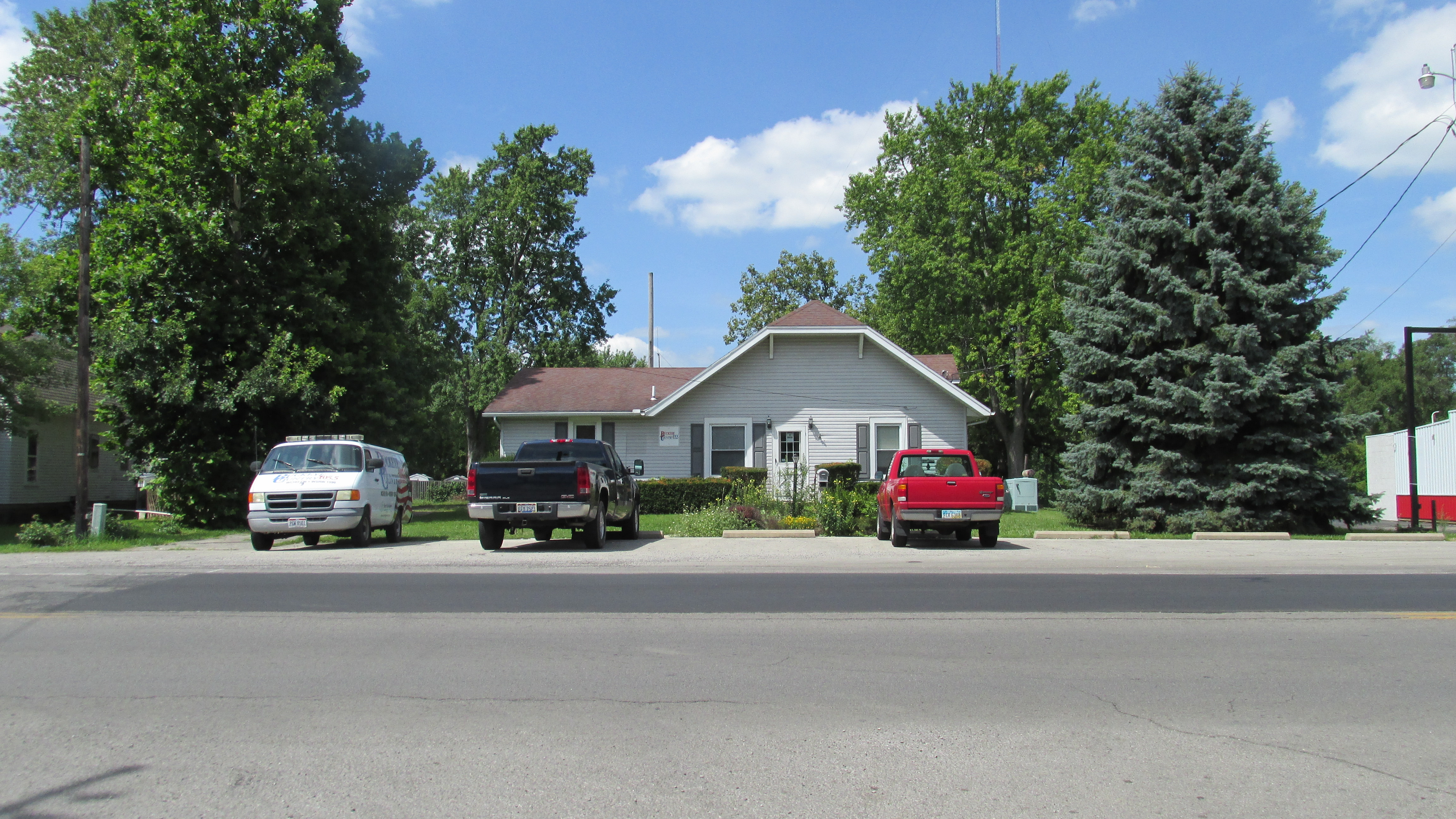 WCHO located at 1535 N. North St. in Washington Court House, Ohio.